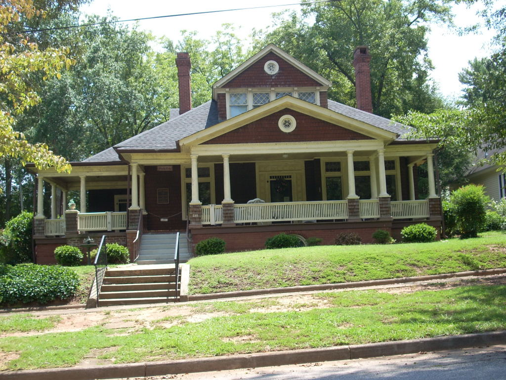 Lunney Museum, 211 S First St, Seneca (Oconee County, South Carolina) Seneca Historic District